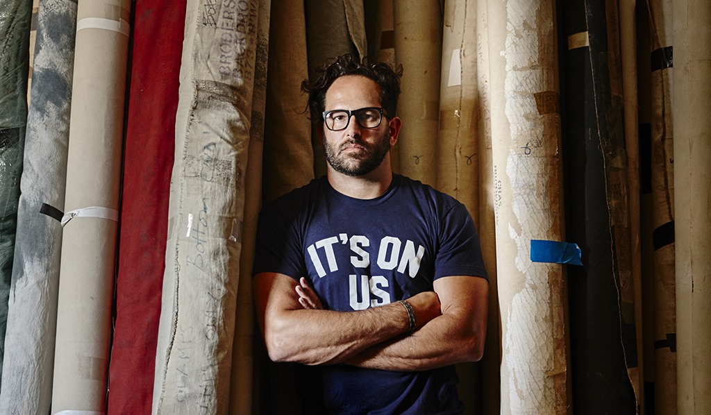 Photo of Jason Harris